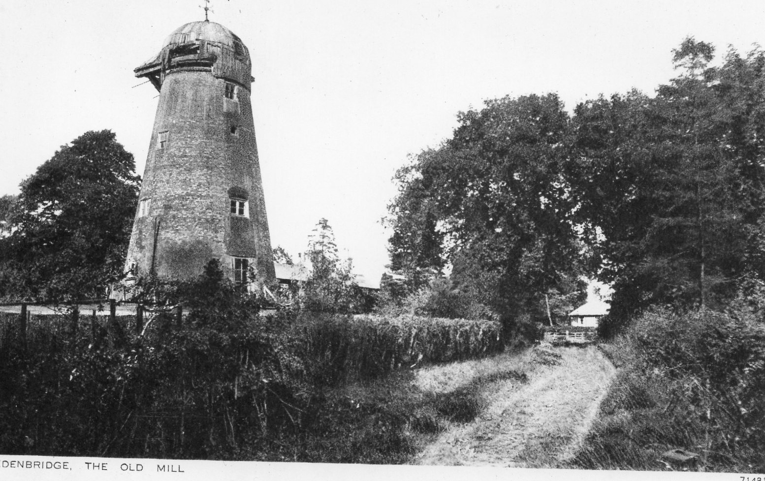 Photograph of a postcard of Edenbridge windmill, date probably early 1920s.